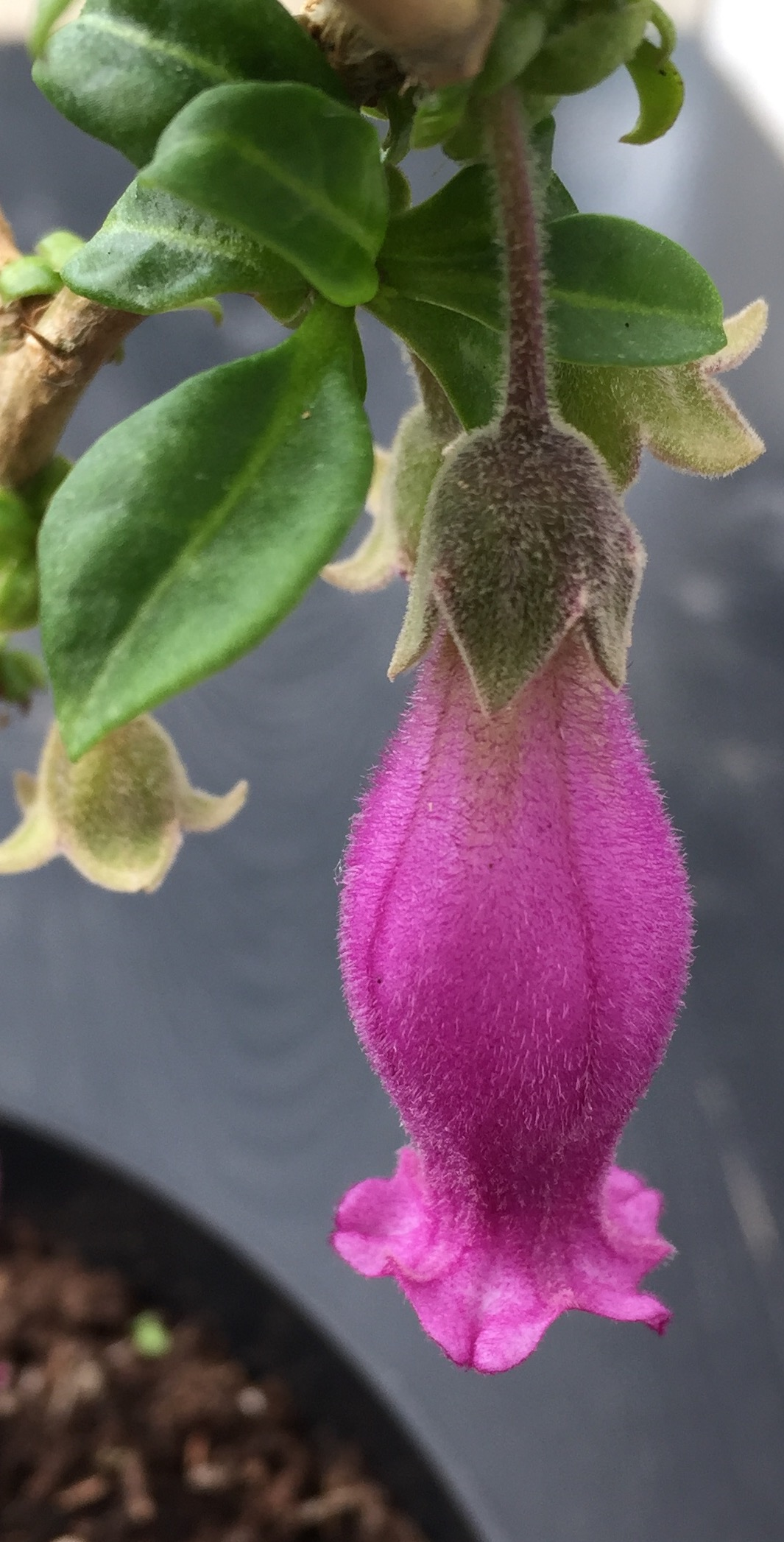 Single flower of Latua pubiflora, 'Árbol de los Brujos' ( =Tree of the Sorcerers ), the single species in the monotypic genus Latua, belonging to the nightshade family Solanaceae and endemic to the coastal mountains of the southwest of Chile. A strongly poisonous and hallucinogenic shrub used by the machi ( = shamans ) of the Mapuche people.